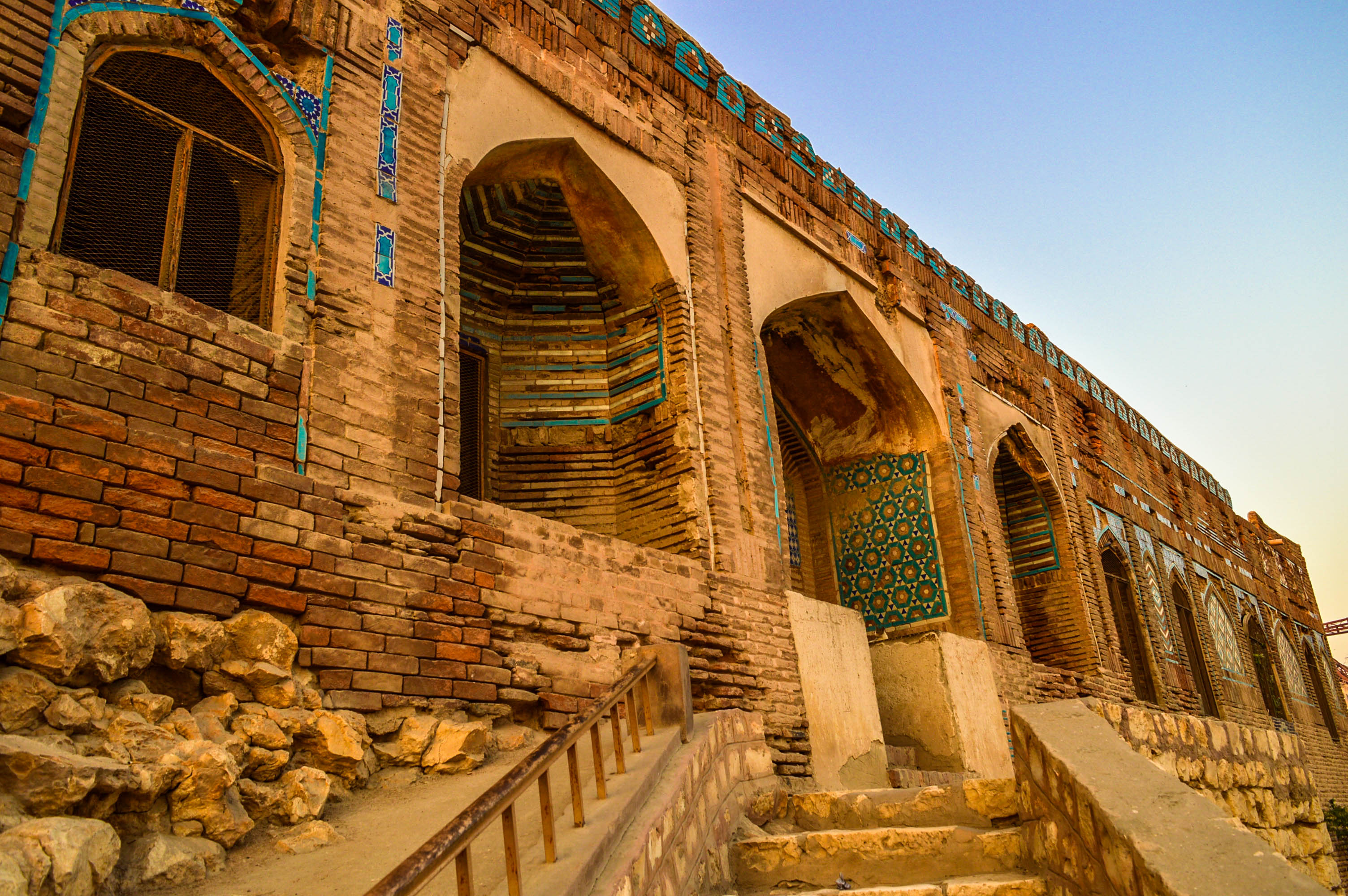 Satyan-jo-than This is a photo of a monument in Pakistan identified as the SD-57